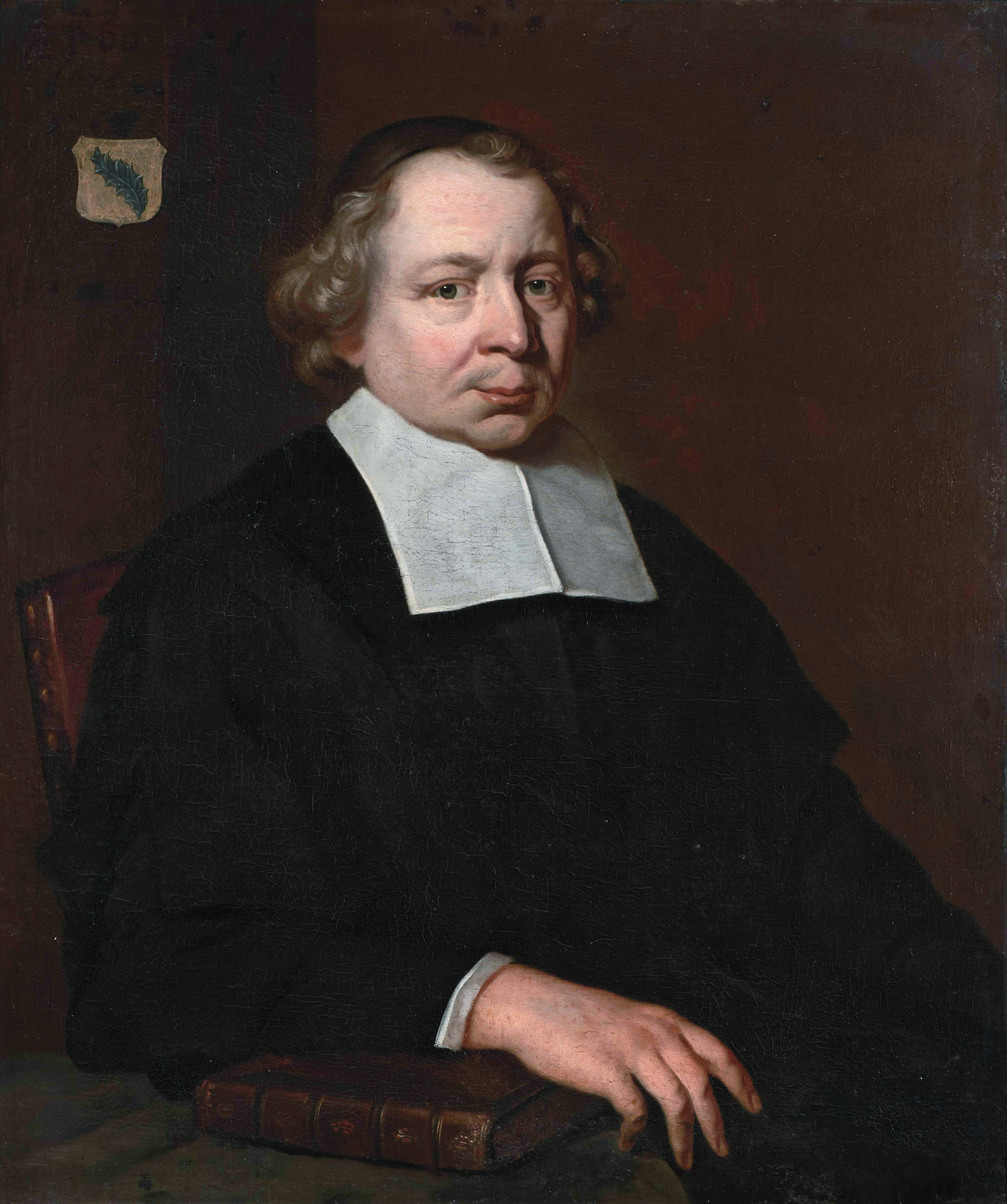 Anthonius Hulsius oil on canvas 81,7 × 68 cm 1675